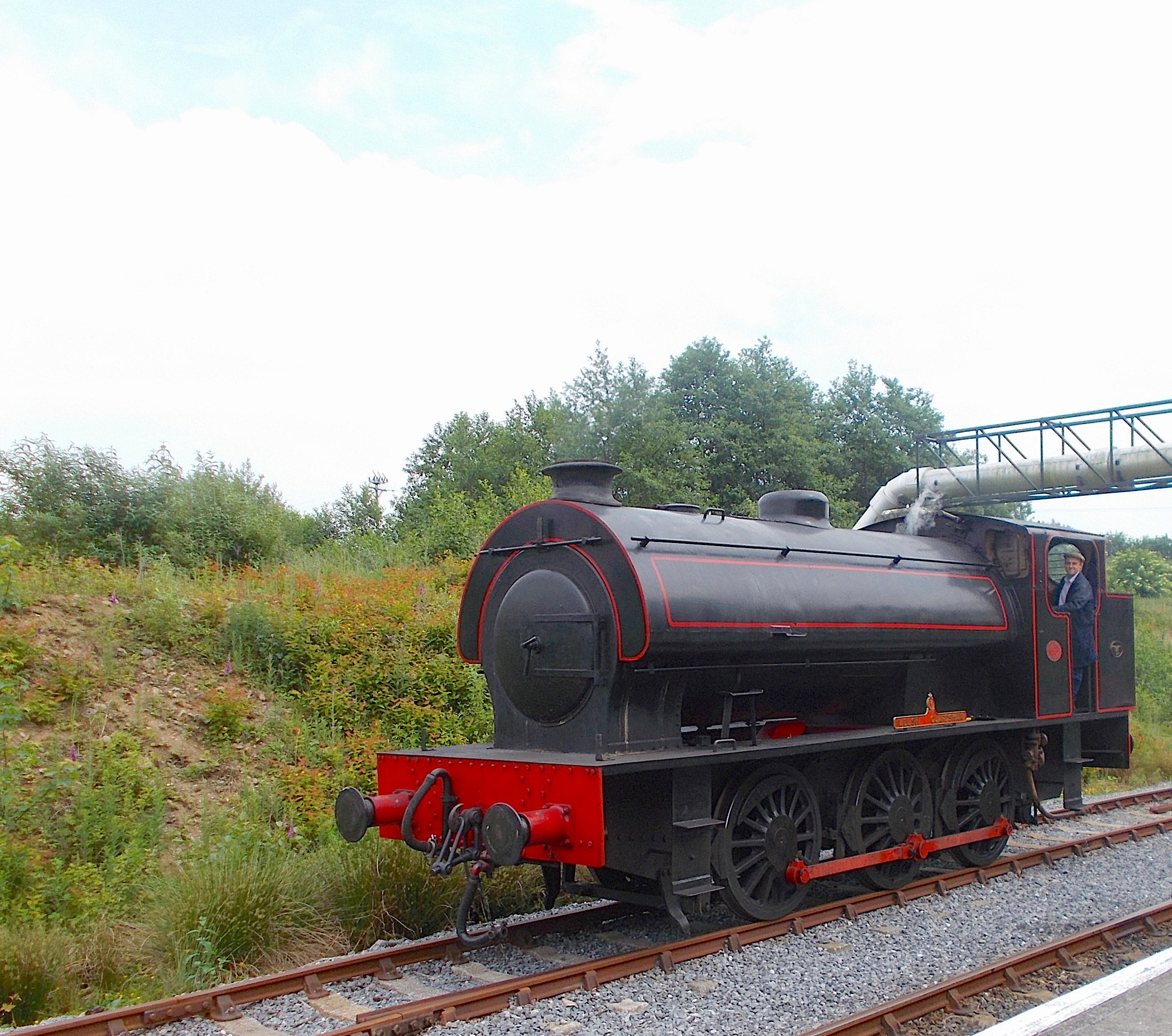 RSH Austerity 0-6-0ST 'Welsh Guardsman' runs round the train at Abergwili Junction Railway Station